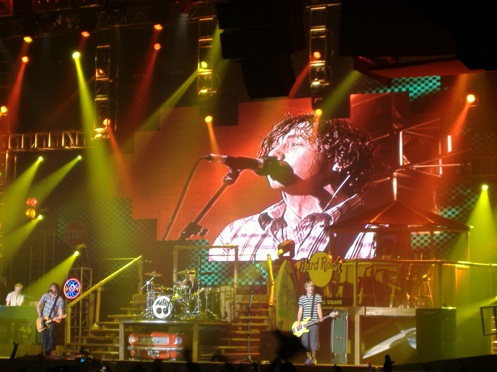 McFly perform at The Point, Dublin as part of their Motion in the Ocean tour. Tom Fletcher is behind the piano (left), Harry Judd on the drums, Dougie Poynter on the bass (right), and Danny Jones on guitar (left and screen).